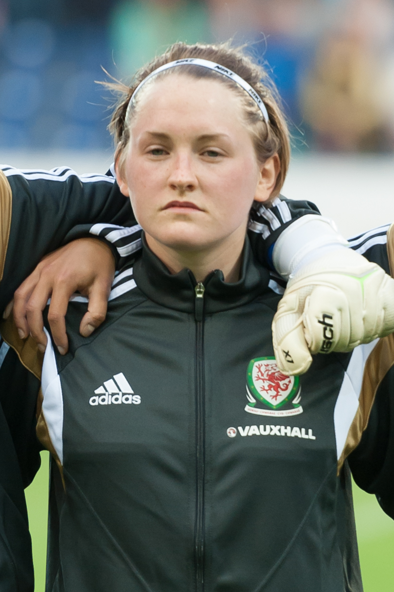 Women's Euro Qualification Austria vs. Wales, 2015-09-22, St. Pölten, Lower Austria